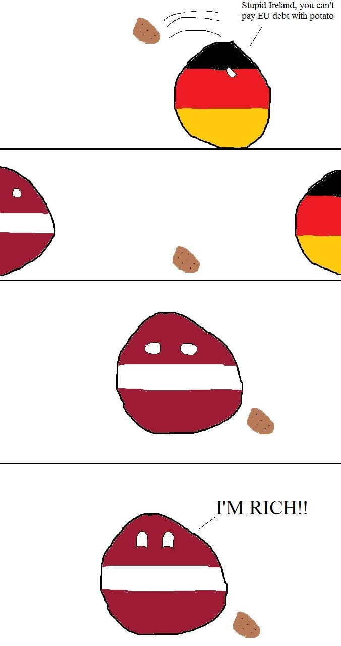 A Polandball comic focussing on Latvia